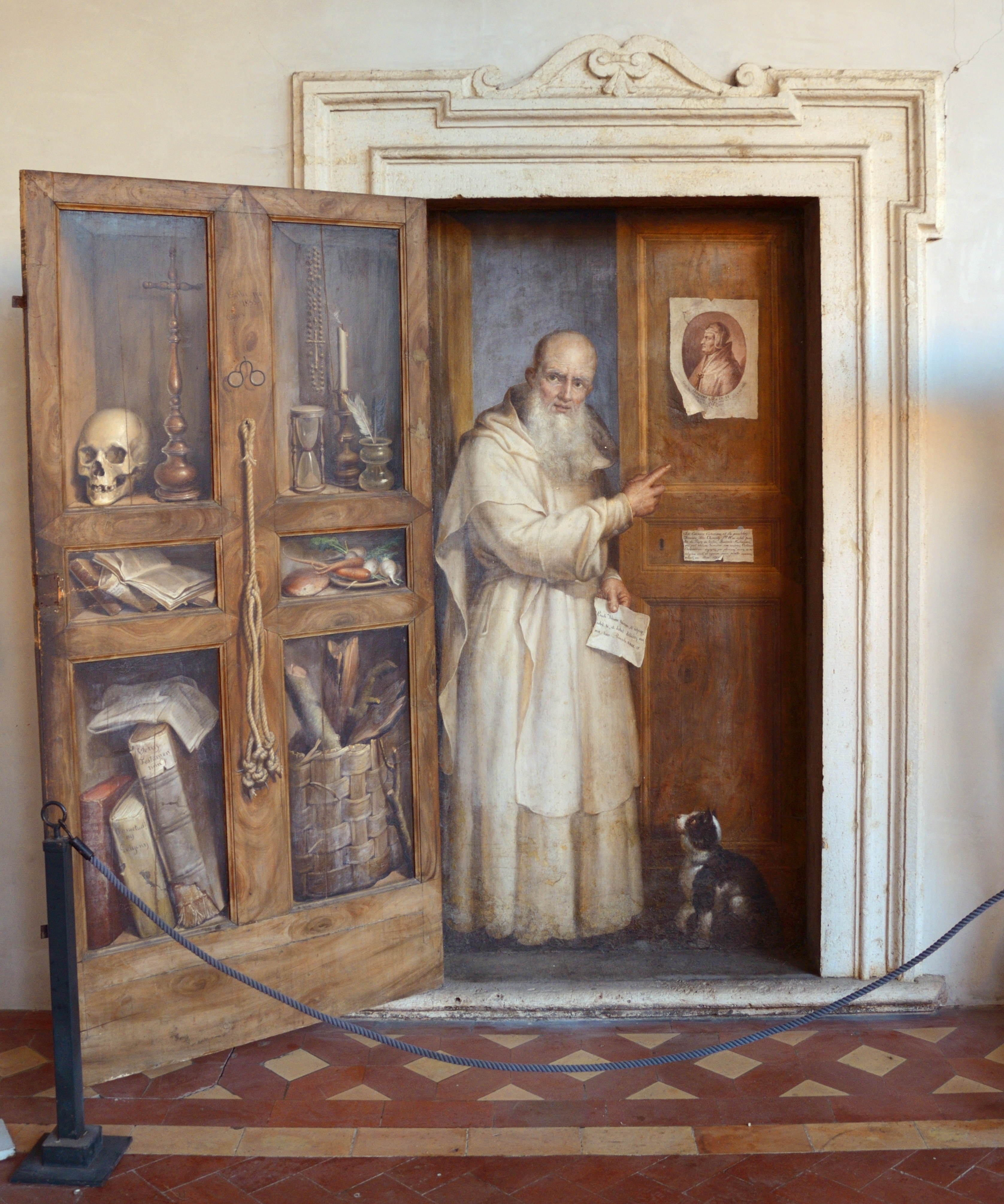 Painted door with a Benedictine monk and cat